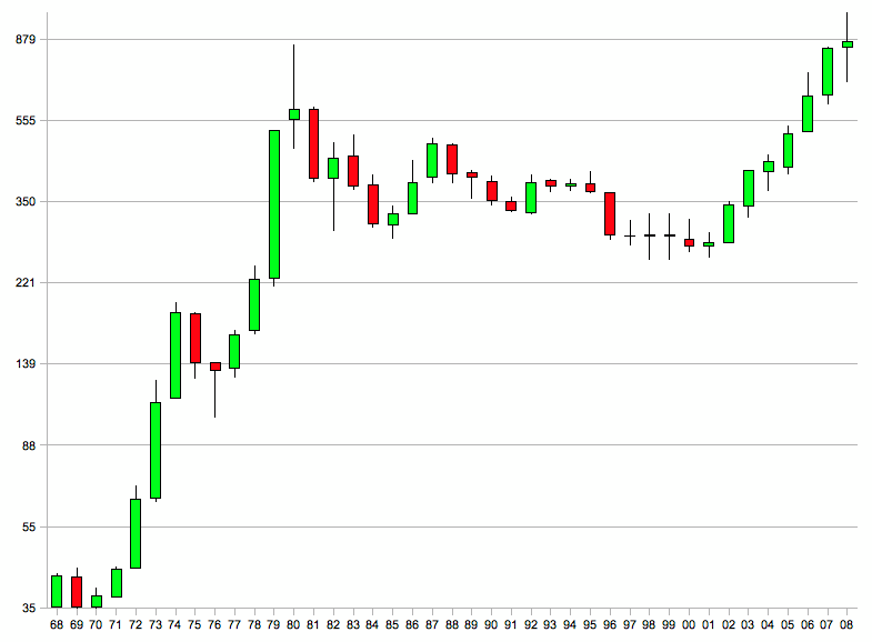 A historic long term candlestick chart in a logarithmic scale of the gold price measured in the United States dollar for the years 1968 — 2008.